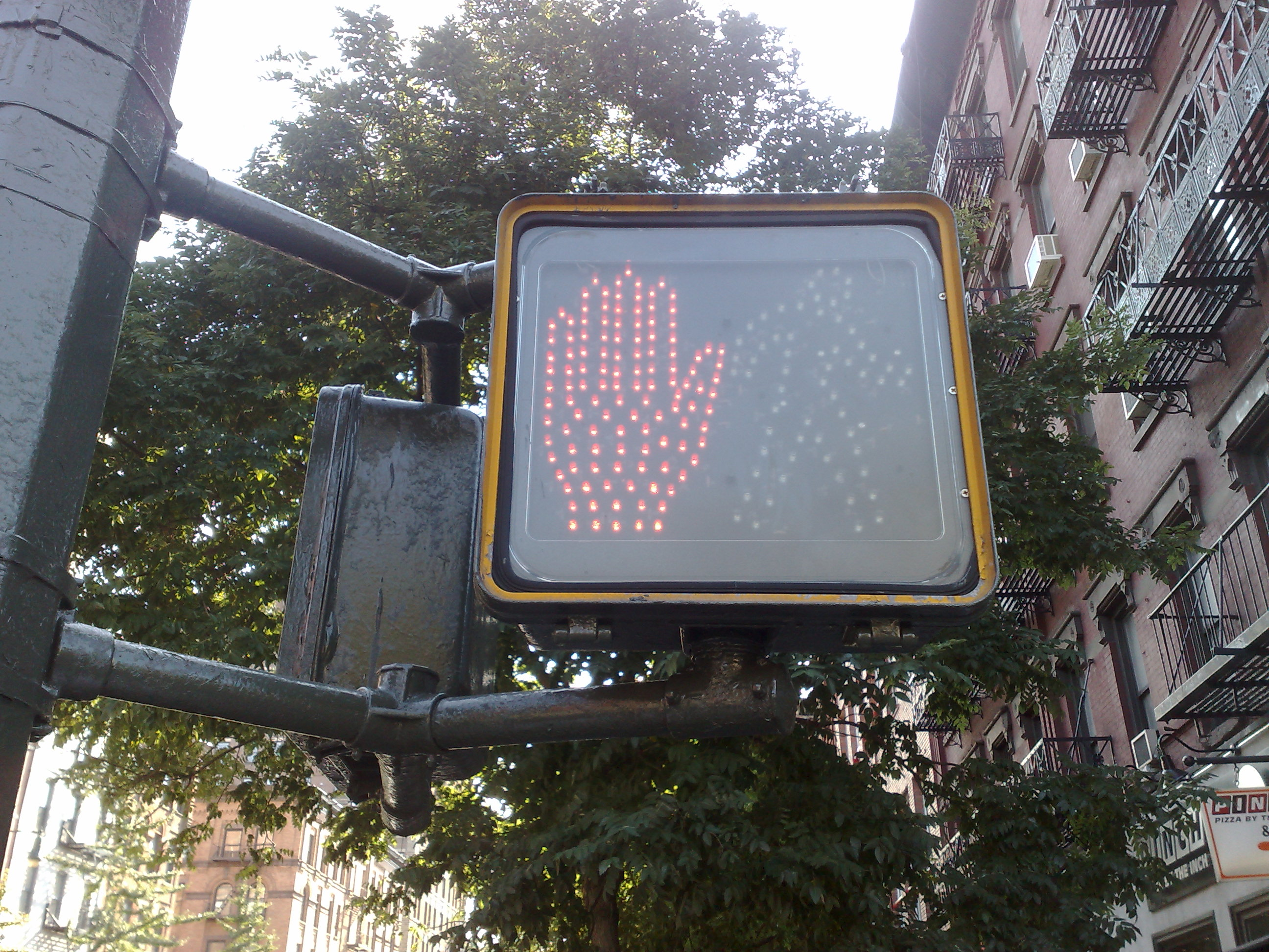 This photo is of Wikis Take Manhattan goal code S12, Pedestrian "Hand" traffic signal.